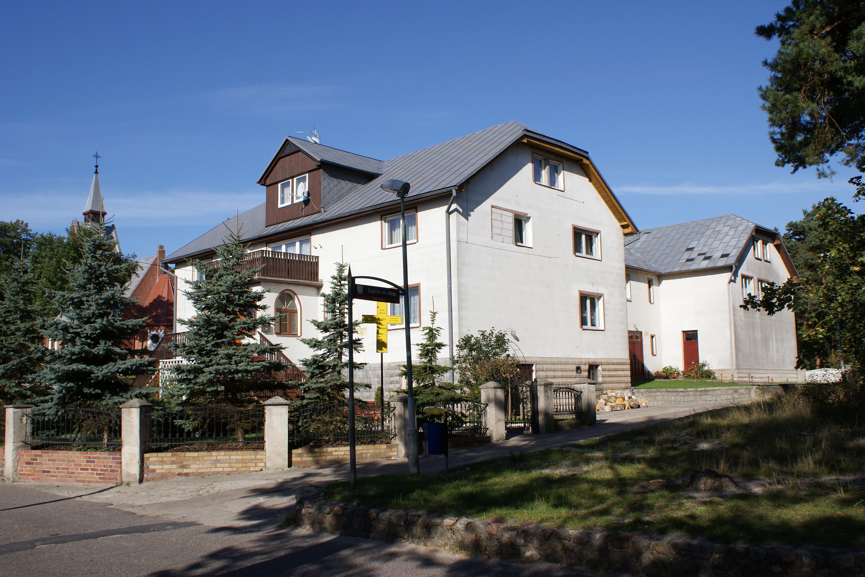 St. Peter and Paul Parish House in Mrzeżyno, Poland